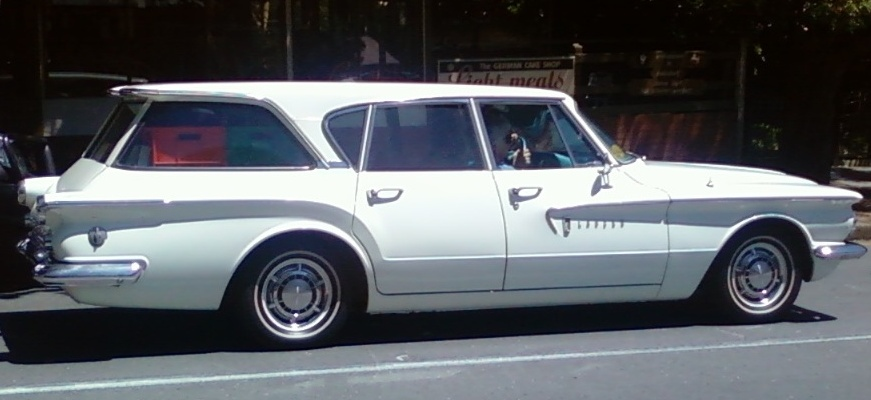 1961 Dodge Lancer 770 Station Wagon